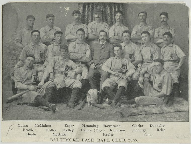 Team Photographs: Baltimore b/w Cleveland, 1896